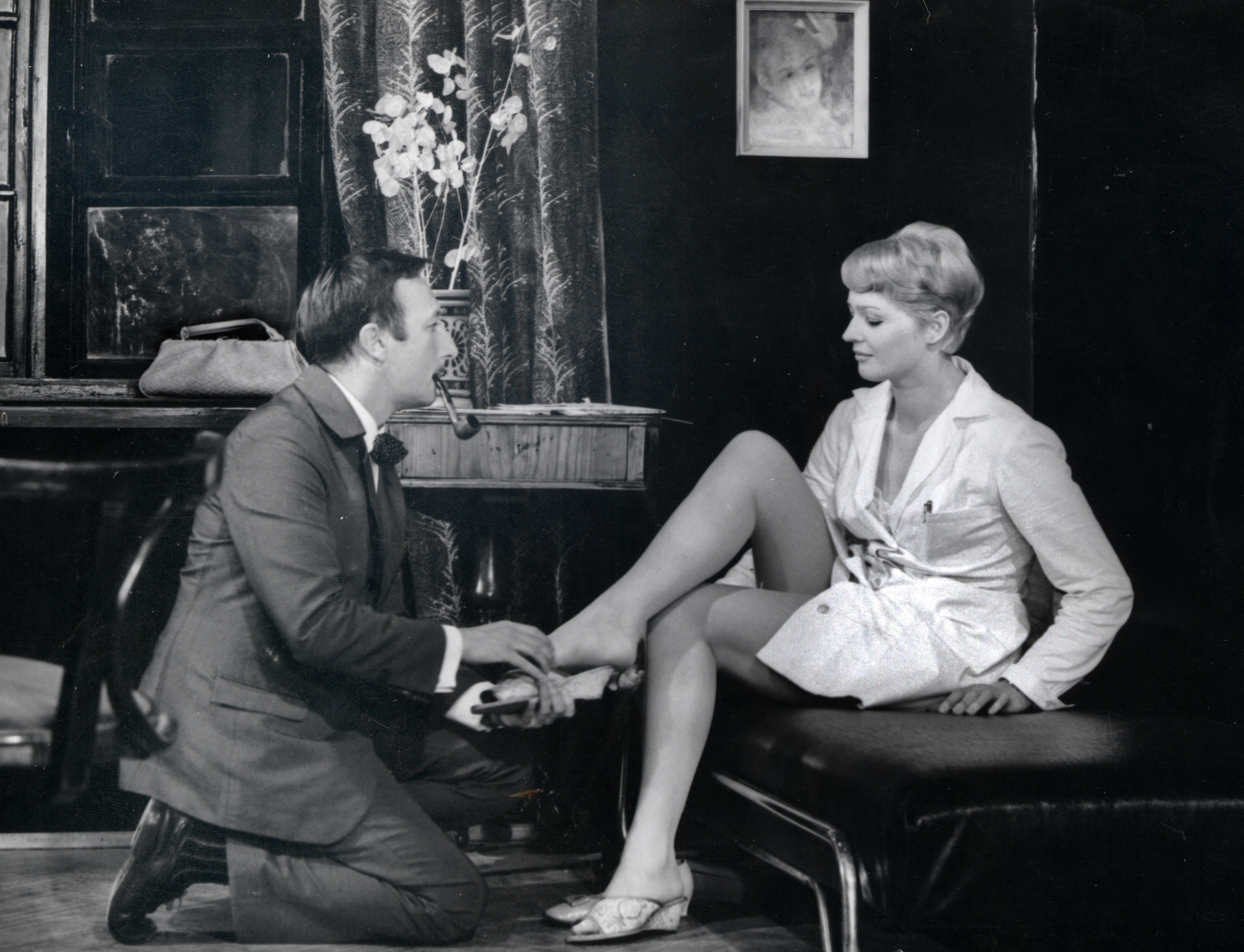 Barbara Modelska z Bogumiłem Kobielą w filmie "Człowiek z M-3" reż. Leon Jeannot